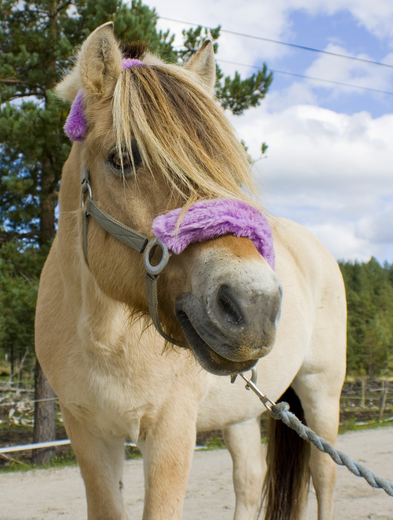 The Fjord horse Anton posing for the camera